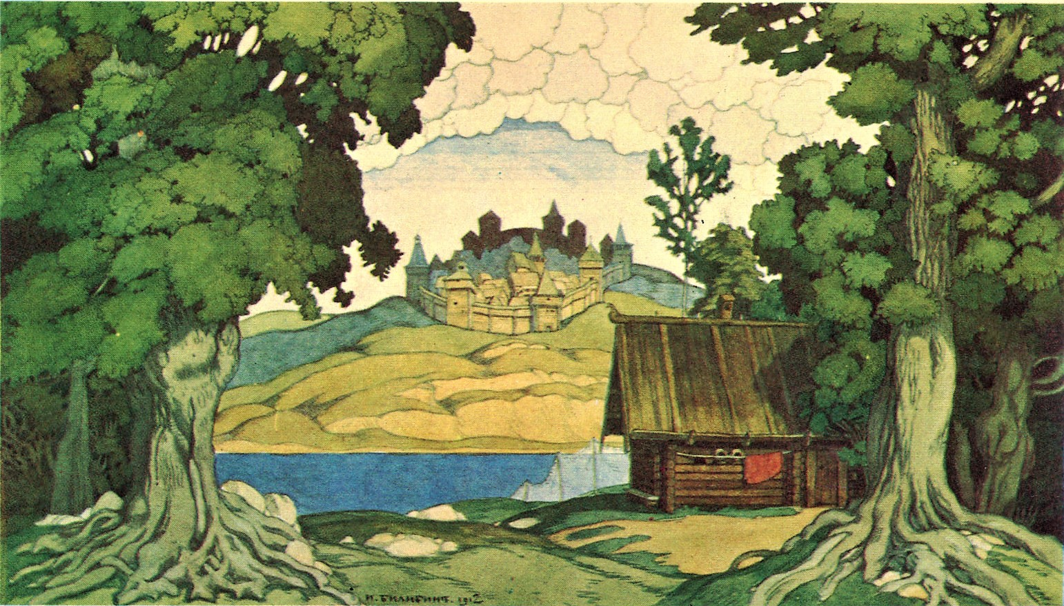 BILIBIN, Ivan (1912) . 'Askold's Grave' by Verstovsky (Dawn on the Bank of the Dnieper)_Bakhrushin Central Theatre Museum